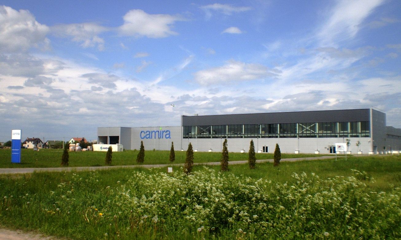 Ariogala, County of Kaunas. Lithuania